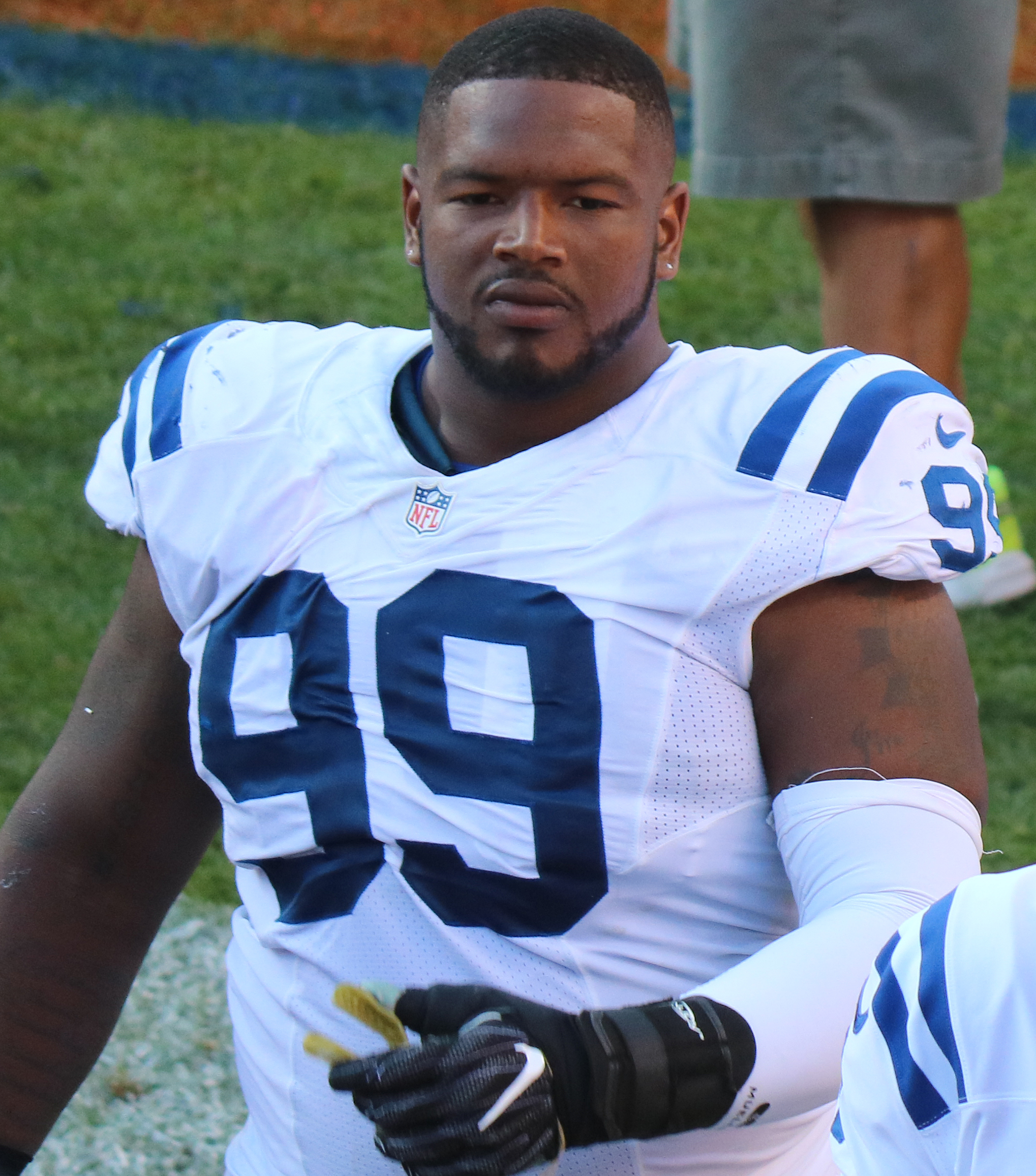 T. Y. McGill, a player on the National Football League.